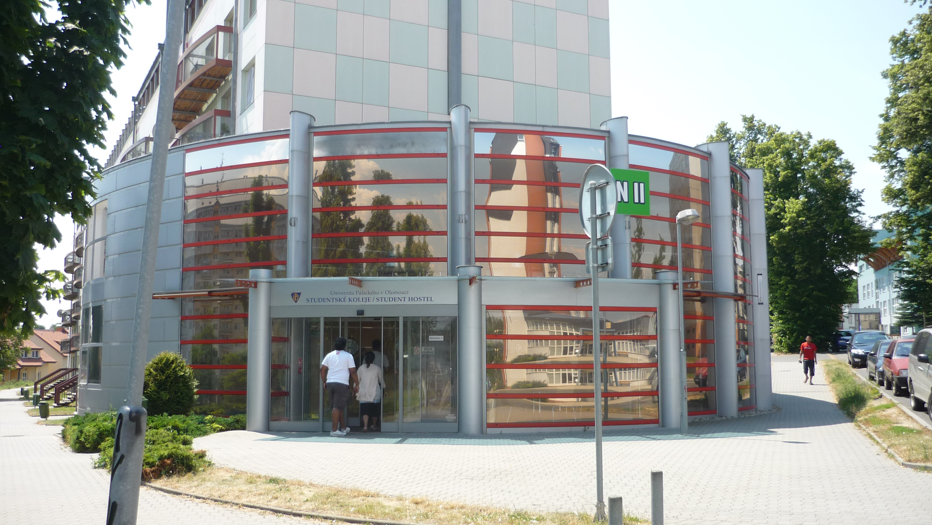 Neředín halls of residence - main entrance and management offices